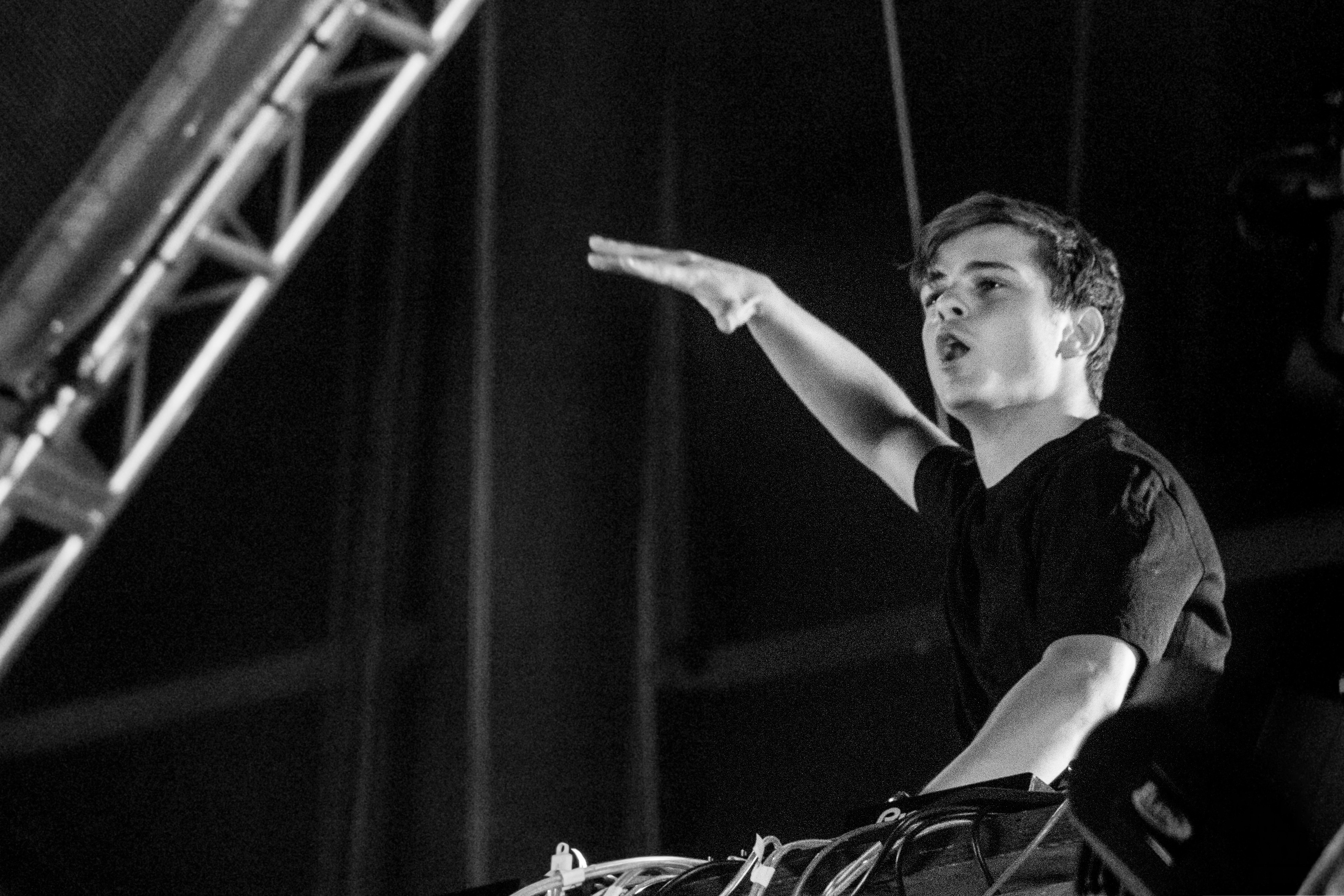 Martin Garrix @ VELD 2016